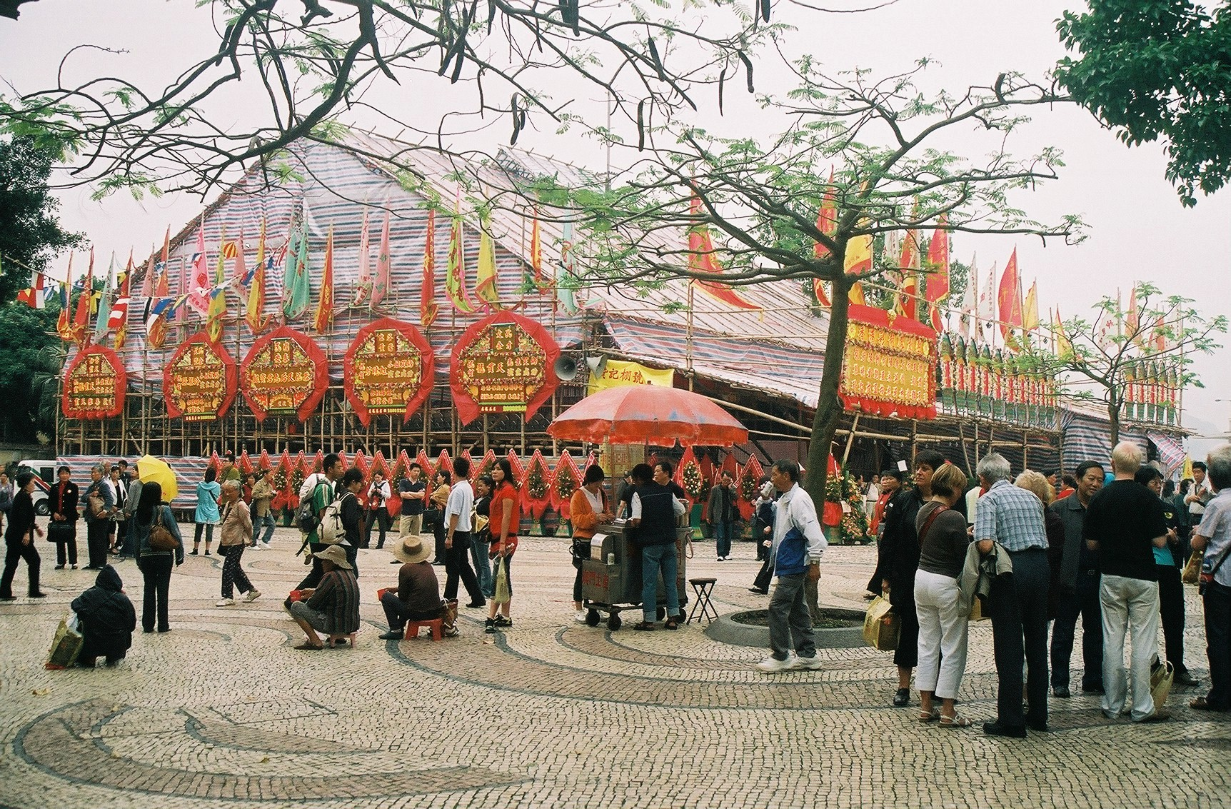 Chinese Opera Celebrating the Birthday of A-Ma, A-Ma Temple, Macau